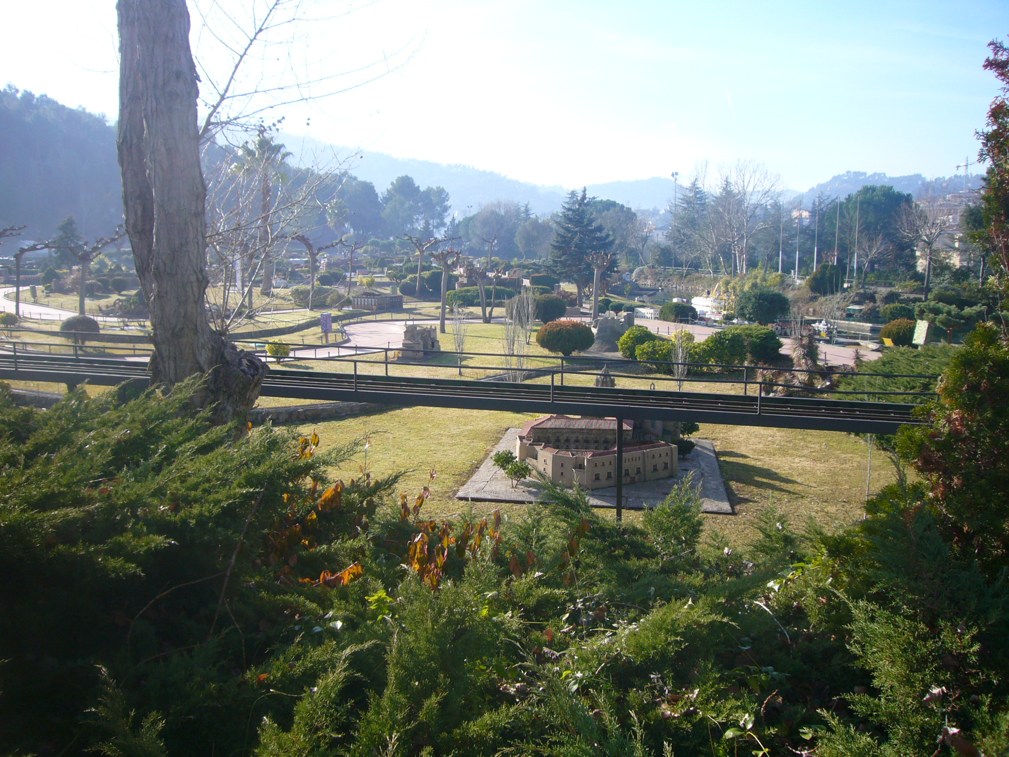 Scale model at the "Catalunya en Miniatura" miniature park : General view of the park